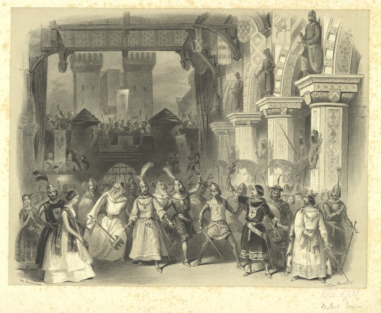 Rossini - Robert Bruce - Paris 1846 - Scene - Victor Coindre - 1 Paris : Théâtre de l'Opéra-Le Peletier, 30-12-1846 Auteur : Victor Coindre (1816–1893) DescriptionFrench drawer and illustratorDate of birth/death 25 August 1816 16 March 1893Location of birth/death Paris ParisWork period1850–Authority control : Q47010463 VIAF: 15068171 BNF: 15108104m creator QS:P170,Q47010463 1 est. : lithogr. ; 20 x 25 cm (im.)